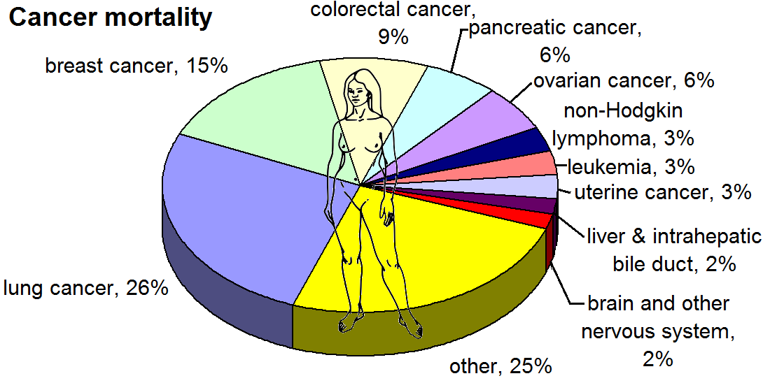 Most common cancers in the United States 2008. See Epidemiology of cancer